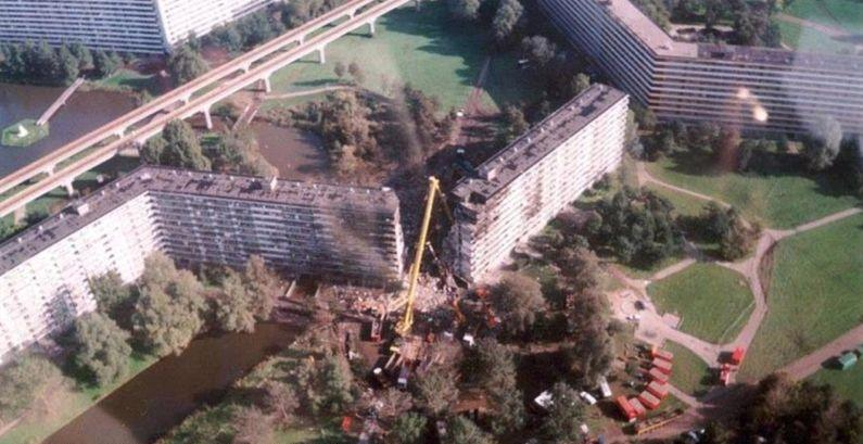 Version without link of File:Bijlmerrampwiers.jpg. Original uploaded with consent from creator and owner Jos Wiersema. website